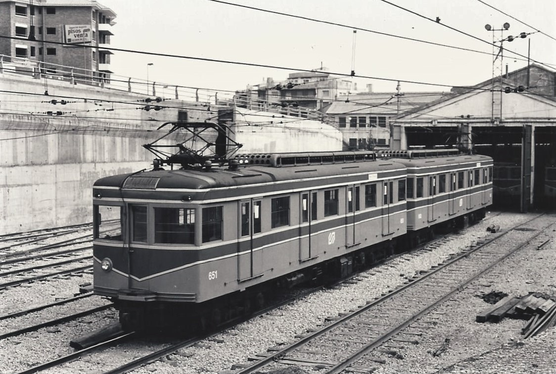 In the workshops of Sarrià, the first train of the 600 series provided by the Barcelona Metropolitan Railway to Ferrocarrils de la Generalitat de Catalunya. We see it with the original numbers (651-652), which soon after were changed (301-311).